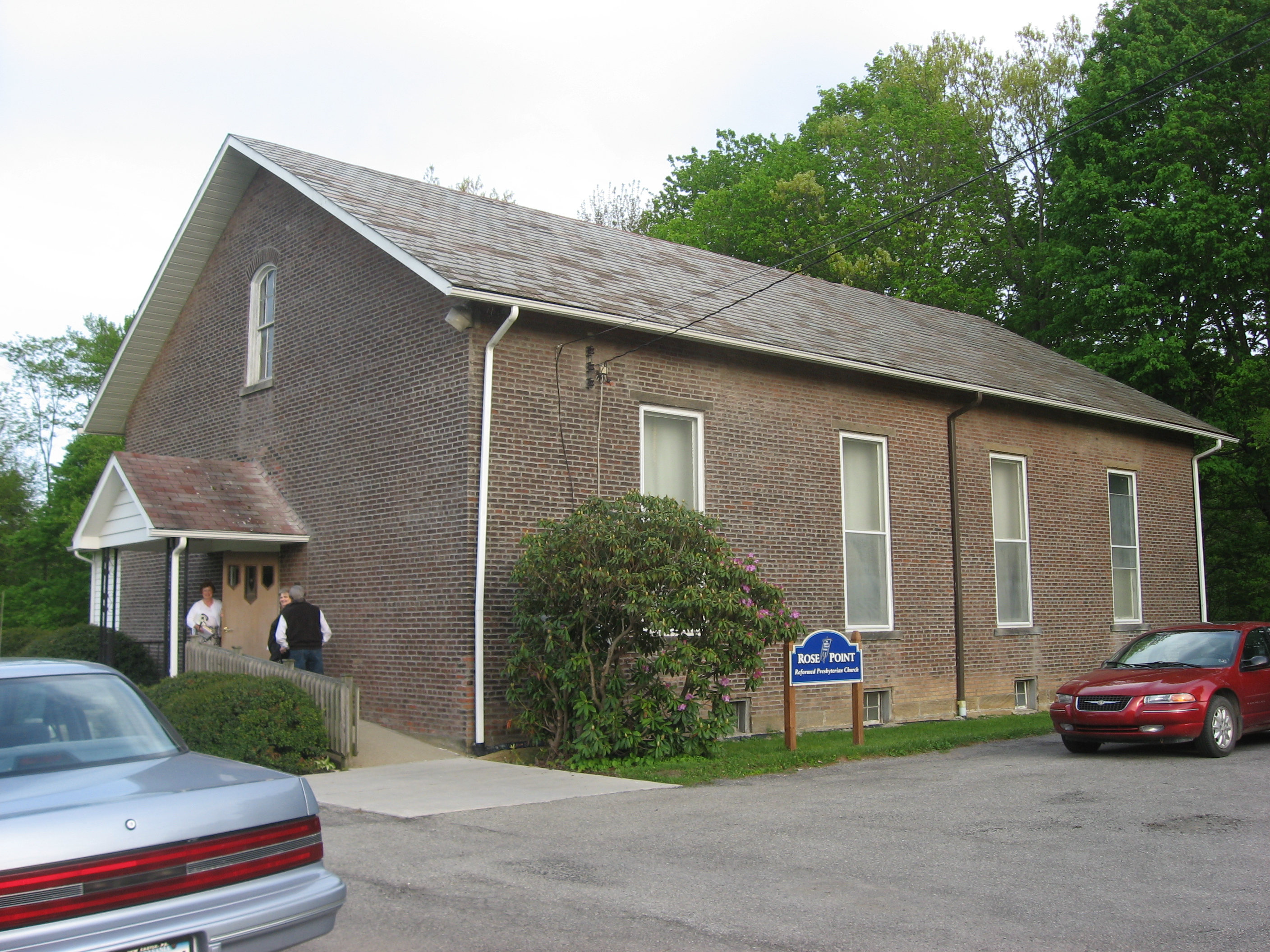 Exterior of the Rose Point Reformed Presbyterian Church in Rose Point, Pennsylvania, United States. Building built in 1871. Address 1166 Church Alley.